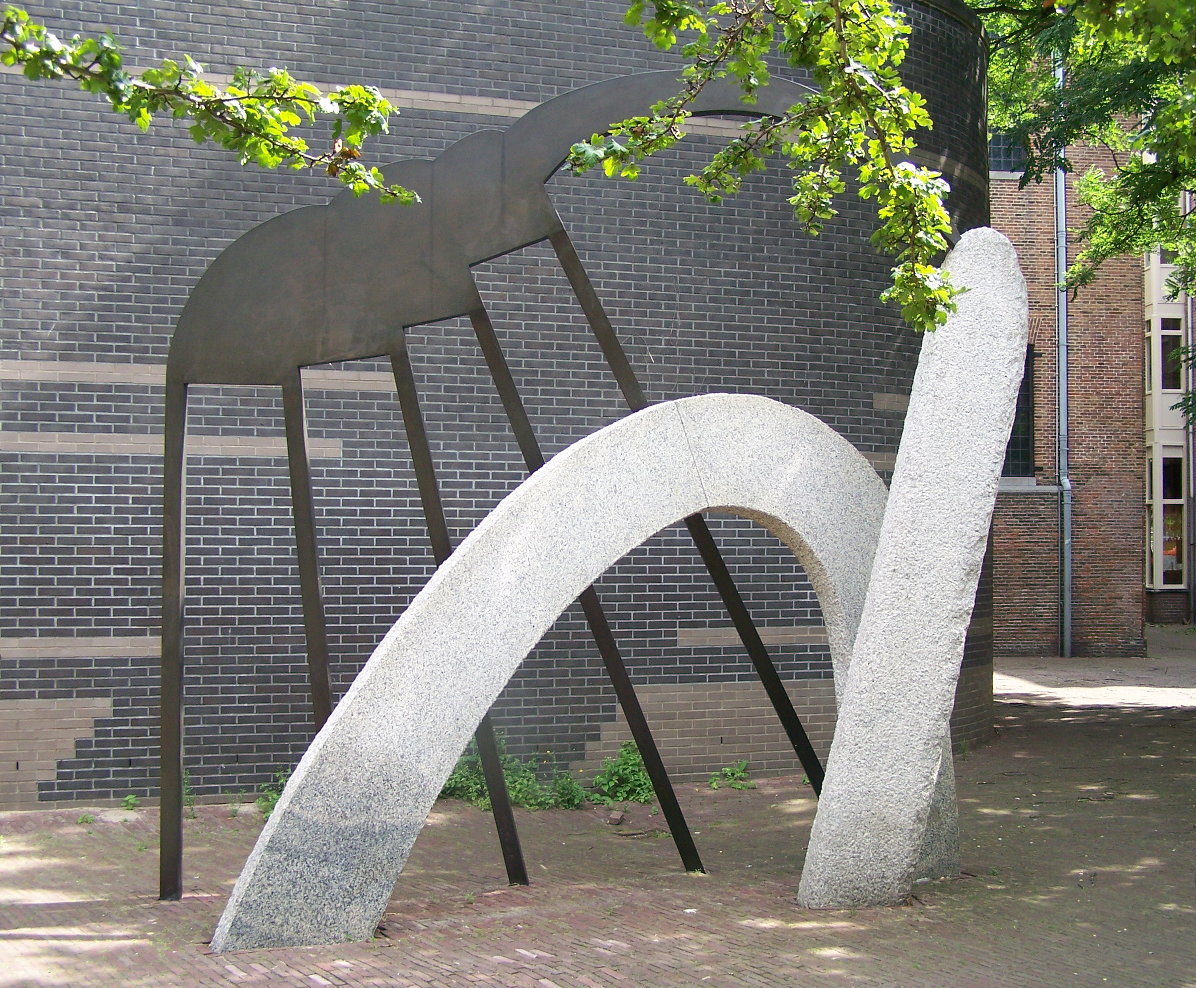 Sculpture "Voor water" (For water) by Harald Schole, placed in 1987 at the A.S. Onderwijzerhof in Amsterdam.